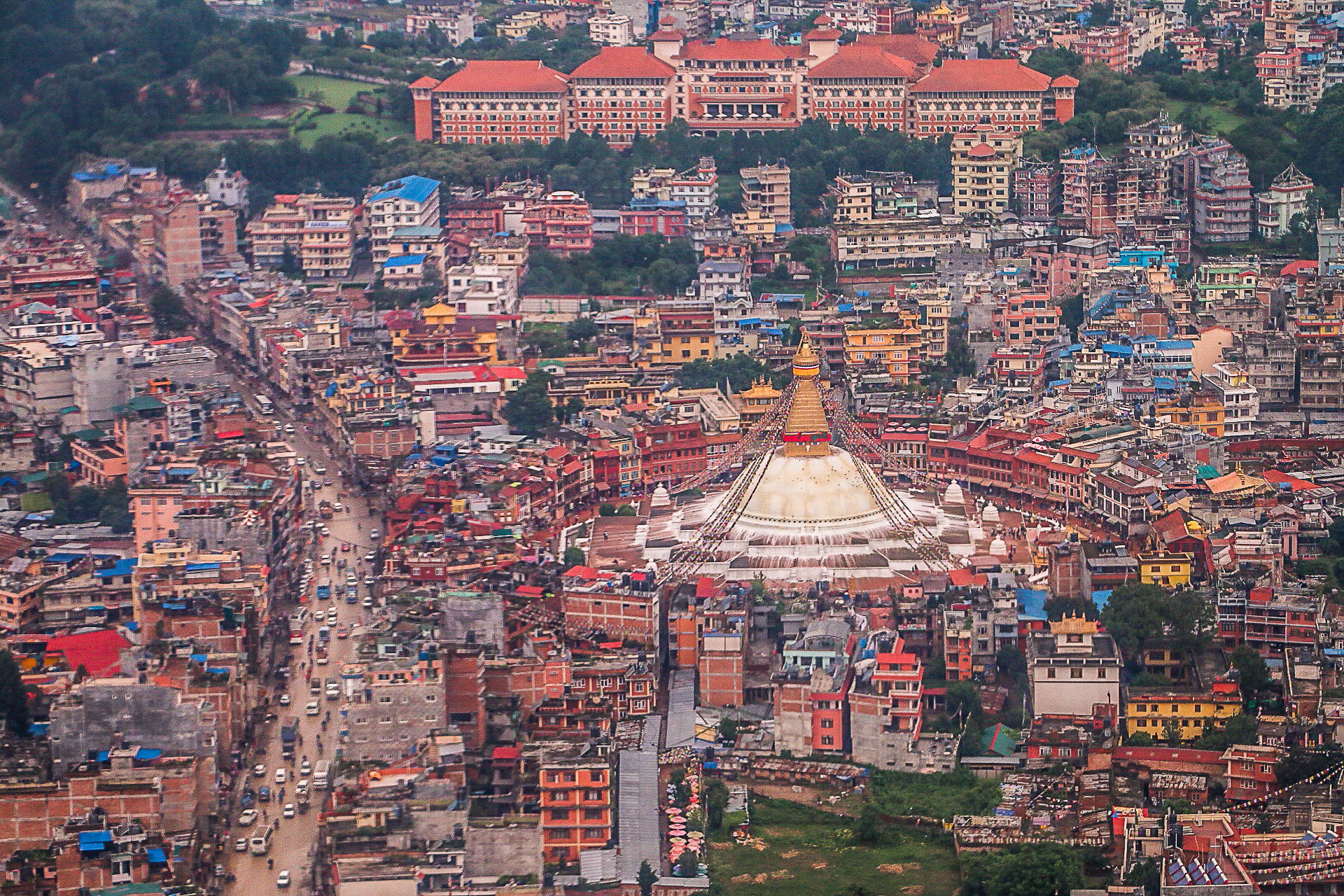 One of the World Heritage Sites of Nepal, Bouddhanath Stupa surrounded by the cityscape of Kathmandu. Shot from a plane.